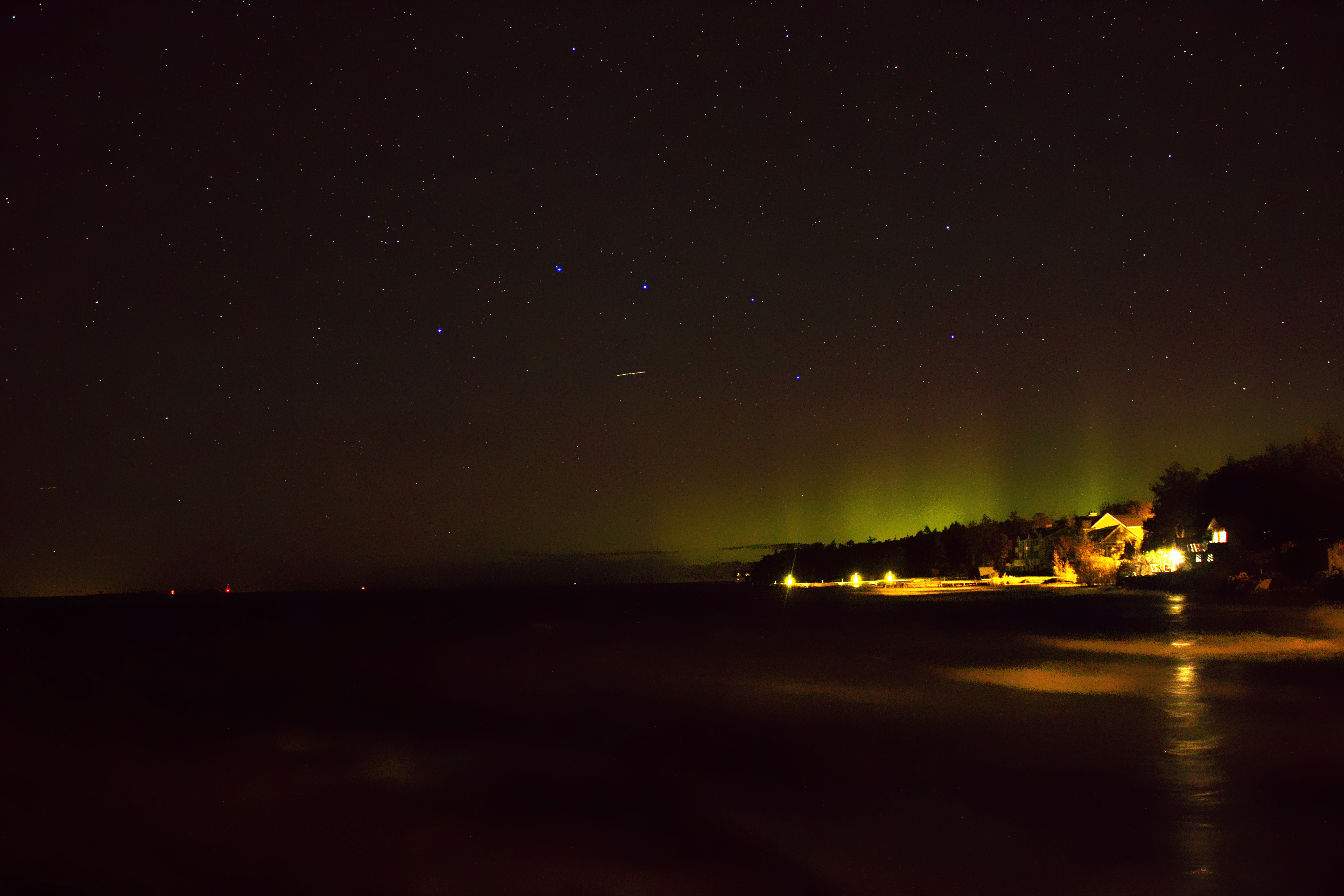 Stars and the Aurora borealis above Ellison Bay in the Town of Liberty Grove, Door County, Wisconsin